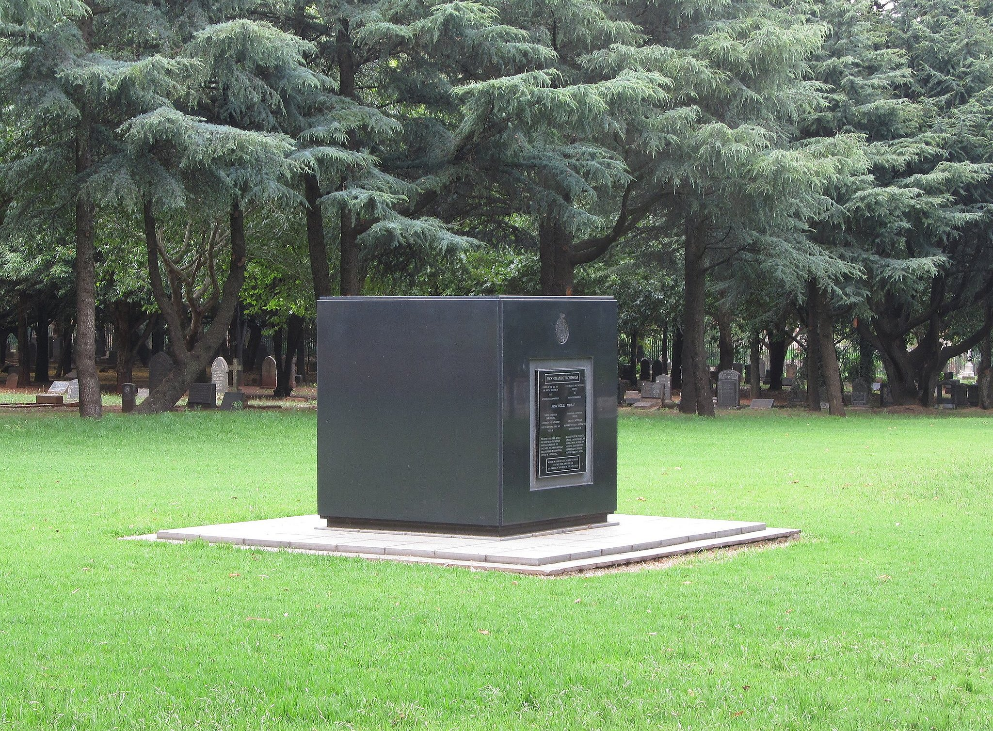 The gravesite of Enoch Mankayi Sontonga In Braamfontein Cemetery, Johannesburg This media shows a South African Protected Site with SAHRA file reference 9/2/228/0205-001.